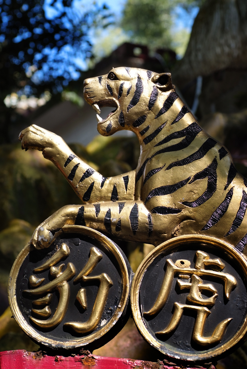 Built in 1937 by the entrepreneurial and charismatic Aw Boon Haw, Haw Par Villa is the quintessential house of Chinese folklore. Described by various visitors as "fascinating, delightful, bizarre and entertaining", Haw Par Villa is like no other place in the world packing with tourists and locals alike in the old days. Statues and figurines replicate Chinese mythology characters like the Laughing Buddha and the Fu Lu Shou (Taoist deities). A must-see exhibit is the Ten Courts of Hell, featuring the ten steps of judgement before reincarnation. Literal and leaving nothing to the imagination, the statues and sets immortalise moral values and Chinese cultural heritage for generations to come. Unfortunately, today there seems to be lack of interest as a tourist destination.